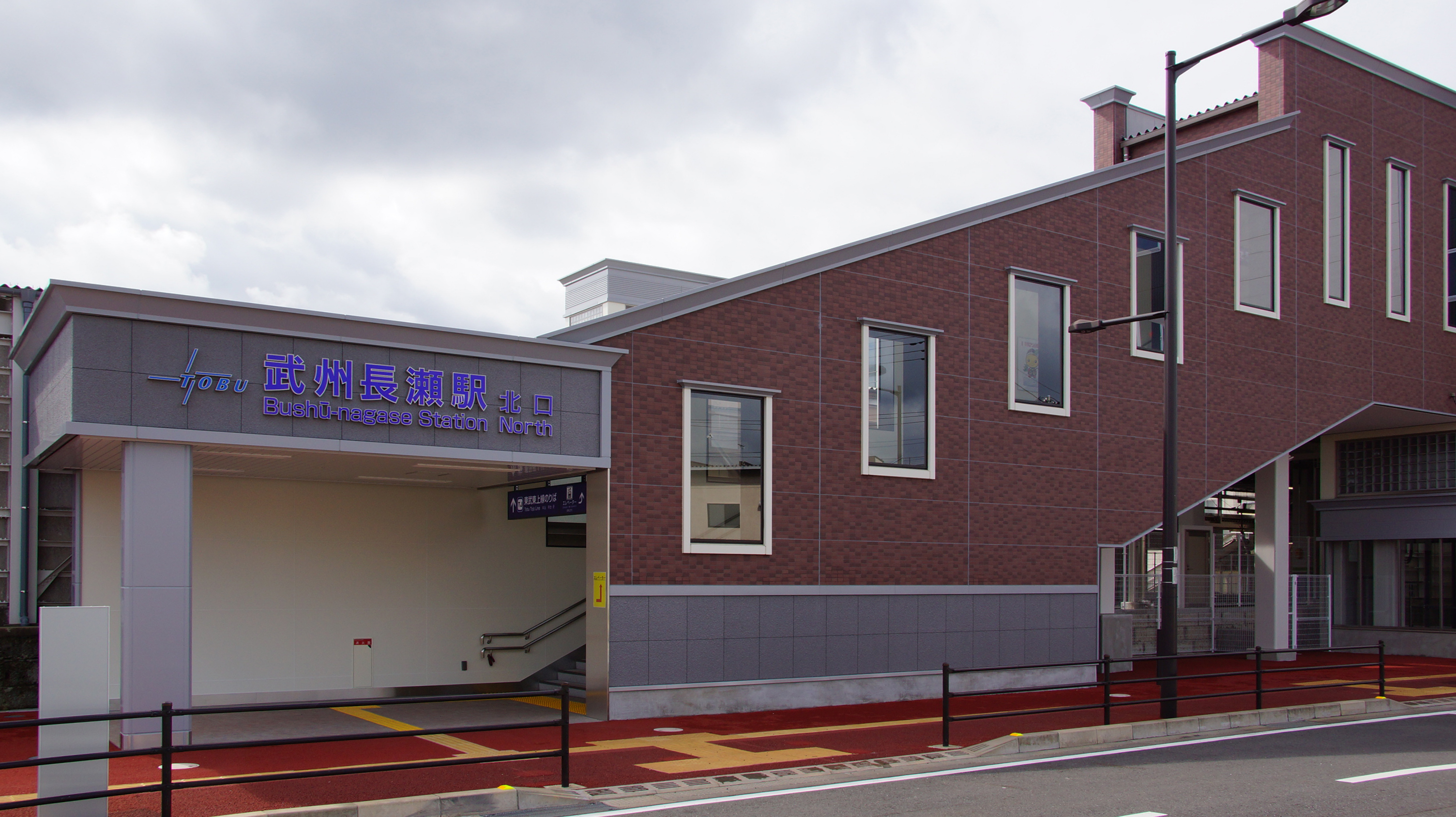 The north entrance of Bushu-Nagase Station on the Tobu Ogose Line in Moroyama, Saitama, Japan